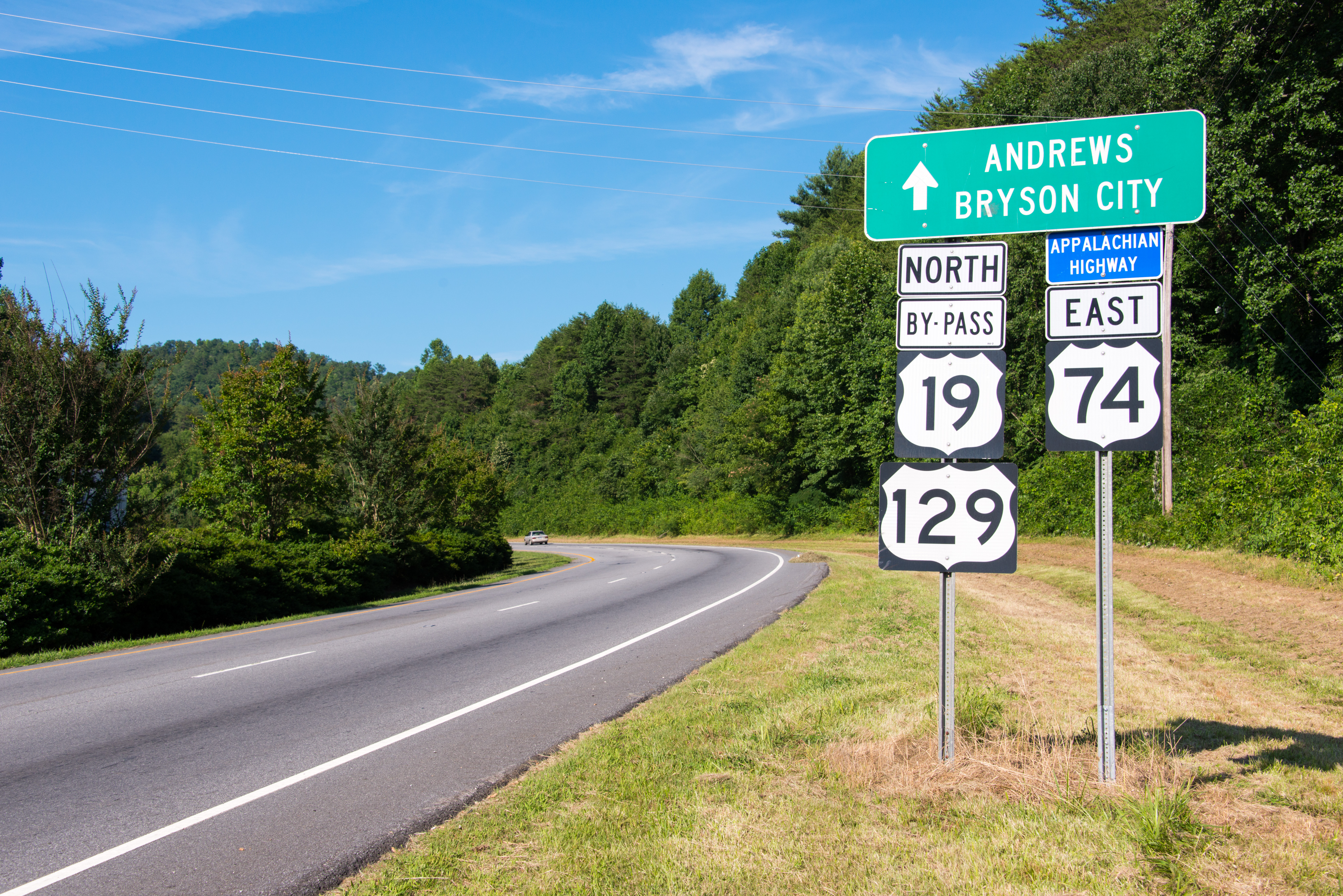 Northbound US 19/129 and eastbound US 74, in Murphy, towards Andrews and Bryson City. Route is part of the Appalachian Highway.